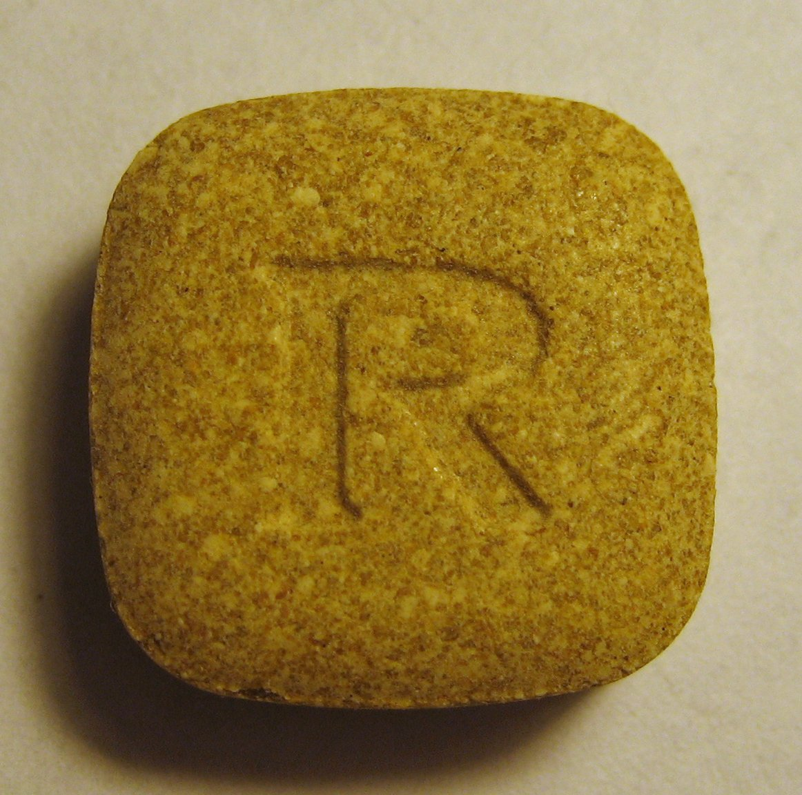 A 100 mg Rimadyl pill bought in the United States. The pill is approximately 19 mm (0.75 in) wide and 8.6 mm (0.34 in) thick.